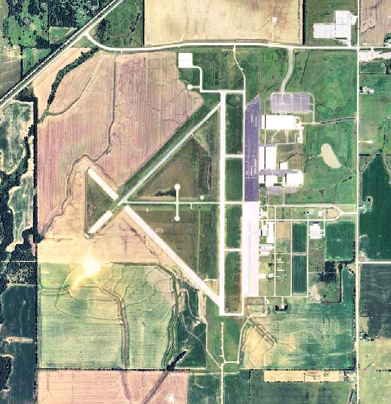 USGS digital orthophoto of Independence Municipal Airport, formerly Independence Army Airfield, in Kansas